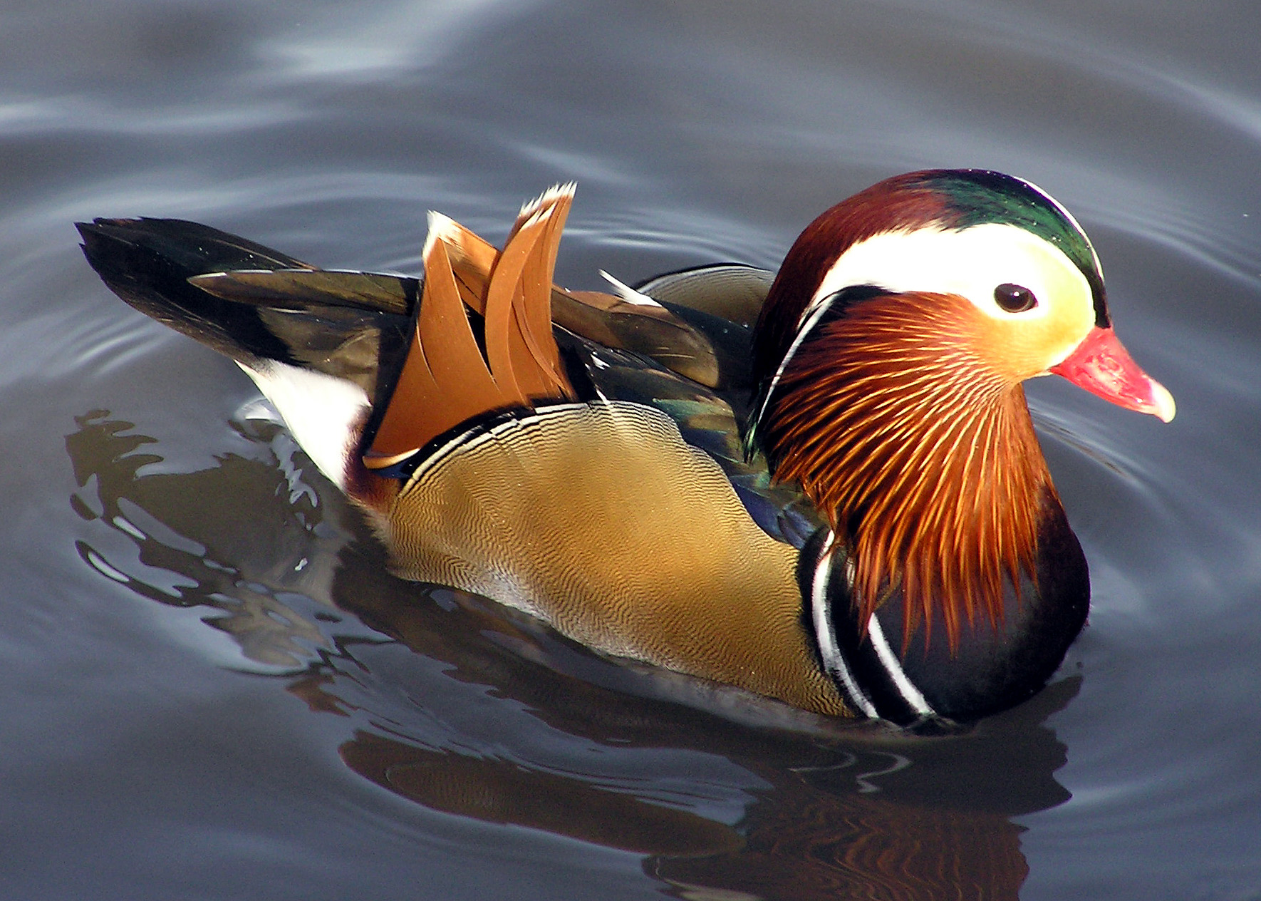 A male Mandarin Duck at Slimbridge Wildfowl and Wetlands Centre, Gloucestershire, England. Its right wing has been clipped.